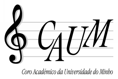 CAUM's logo